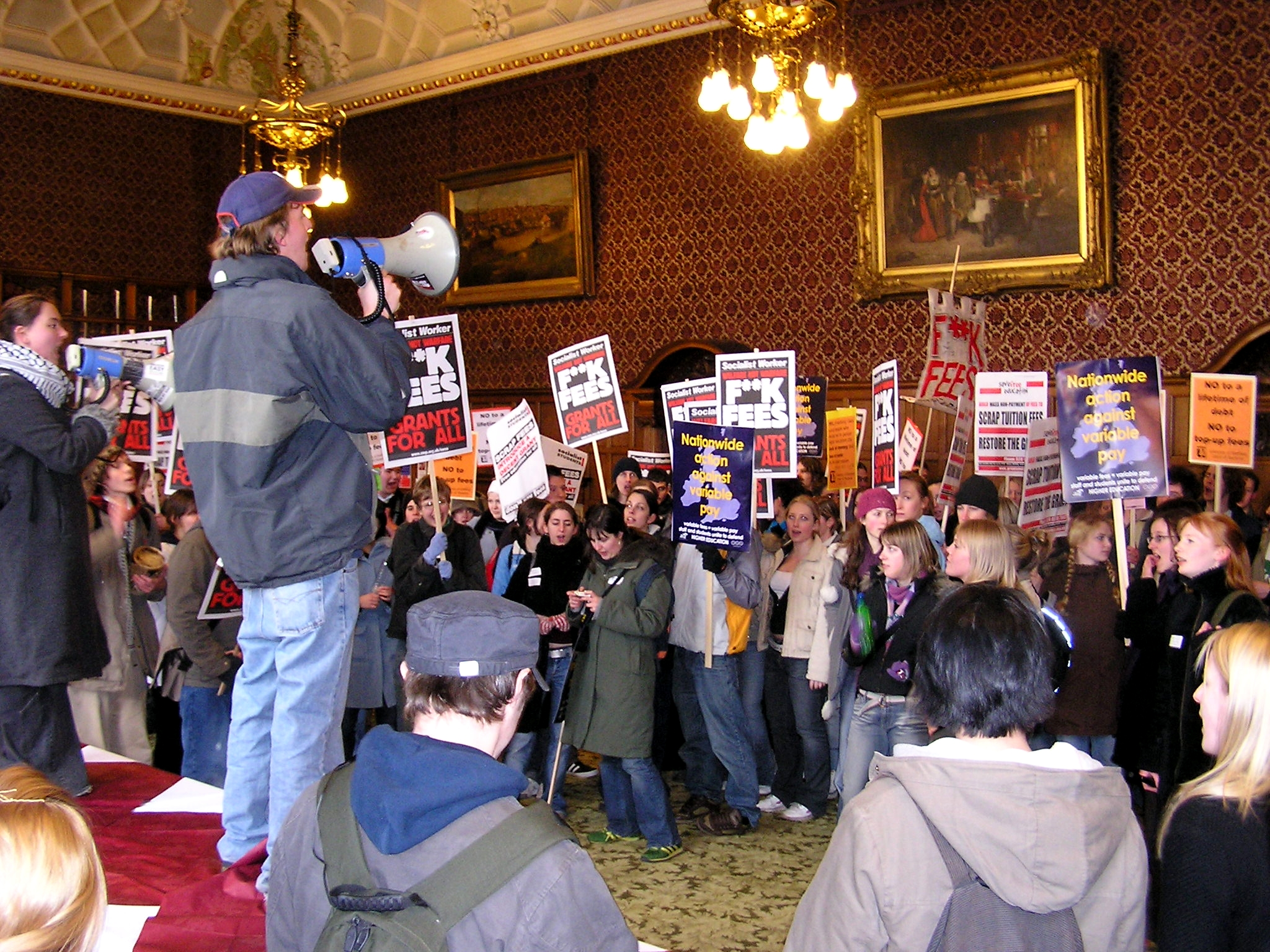 Sheffield Town Hall occupation against tuition fees 25/02/2004